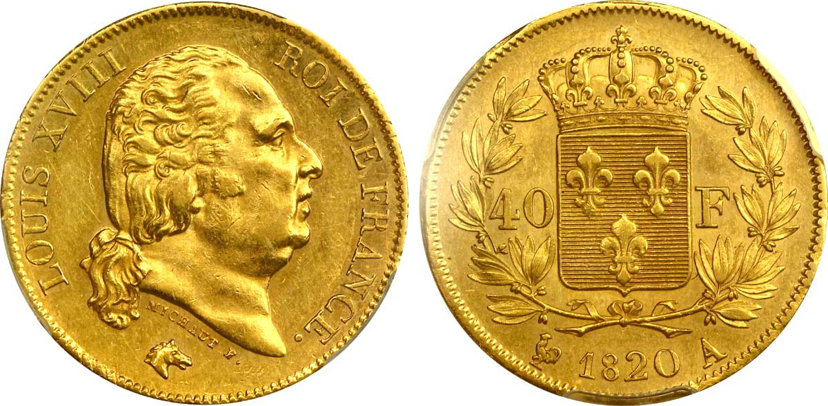 40 francs or à l'eefigie de Louis XVIII,1820,Paris